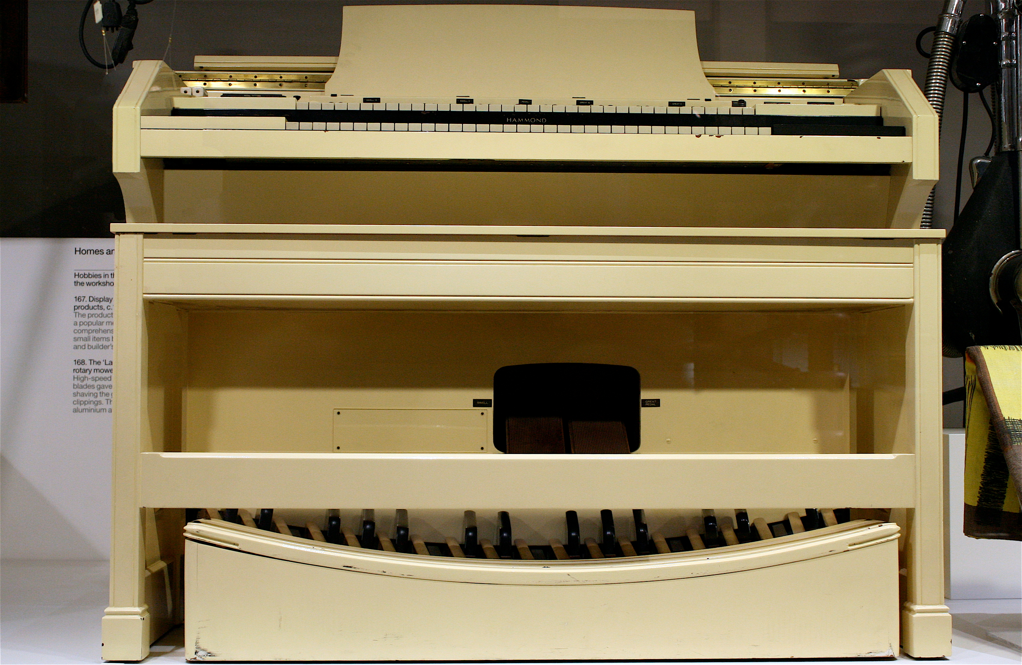 Hammond Concert model E Organ - Science Museum, London Note: it looks like a "Hammond RT" series with 2×61 note manuals, 32 note AGO pedalboard, however, it lacks left-side reverse-color preset keys, and it has additional Swell & Great Pedals. “One of my favourite things!”